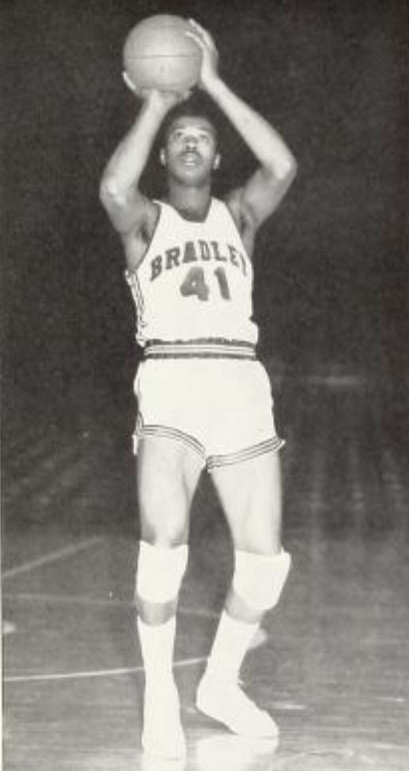 Bradley University basketball player Shellie McMillon from the 1958 “Anaga” yearbook